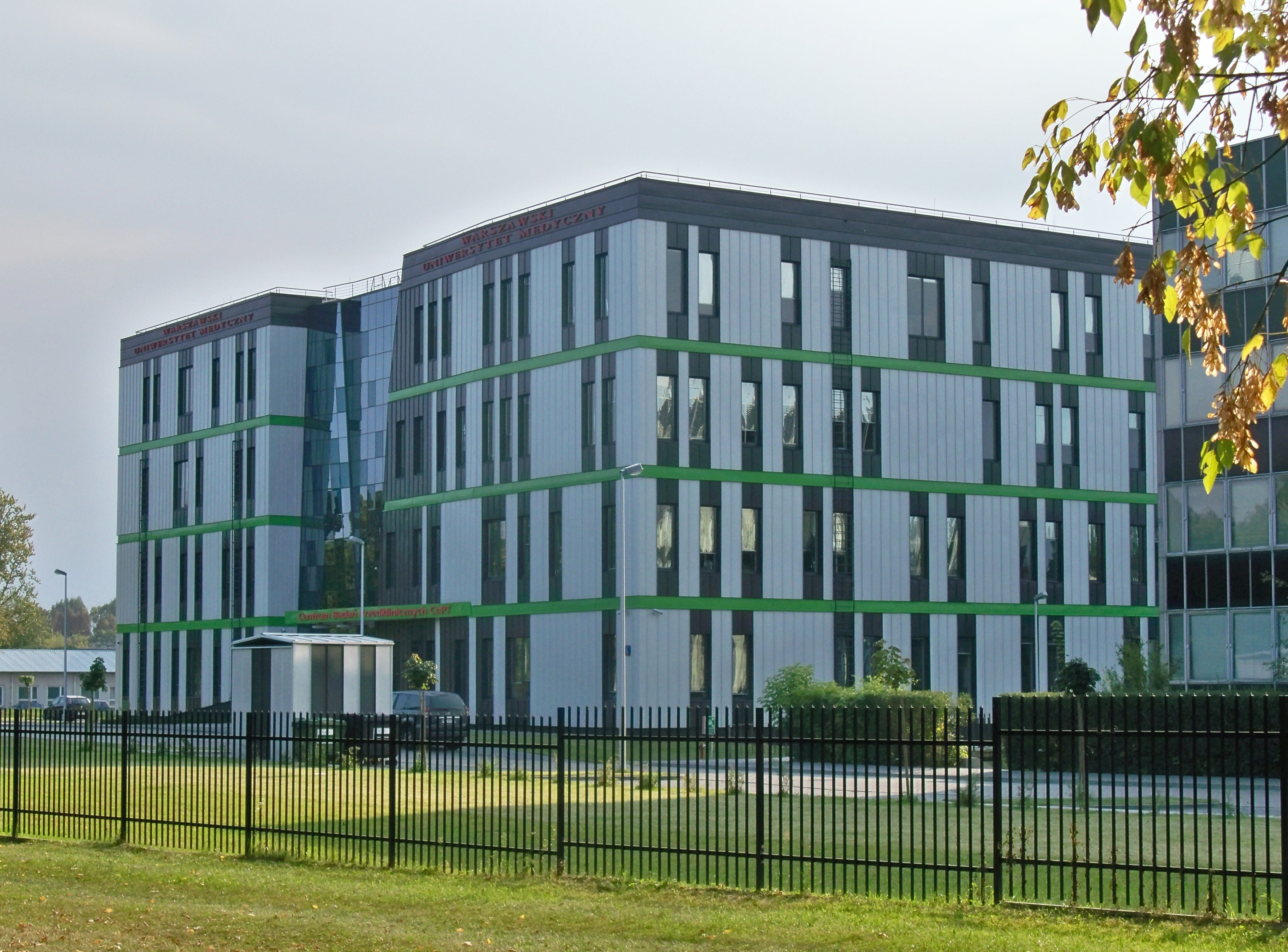 Centre for Preclinical Research, Warsaw Medical University, Żwirki i Wigury 81, Warsaw